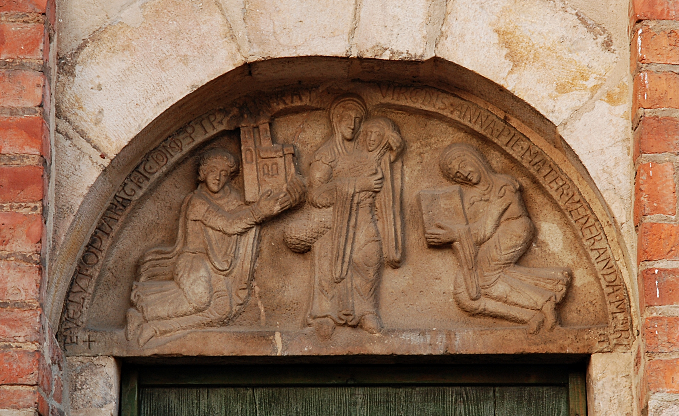 Tympanum from church of the Holy Trinity in Strzelno